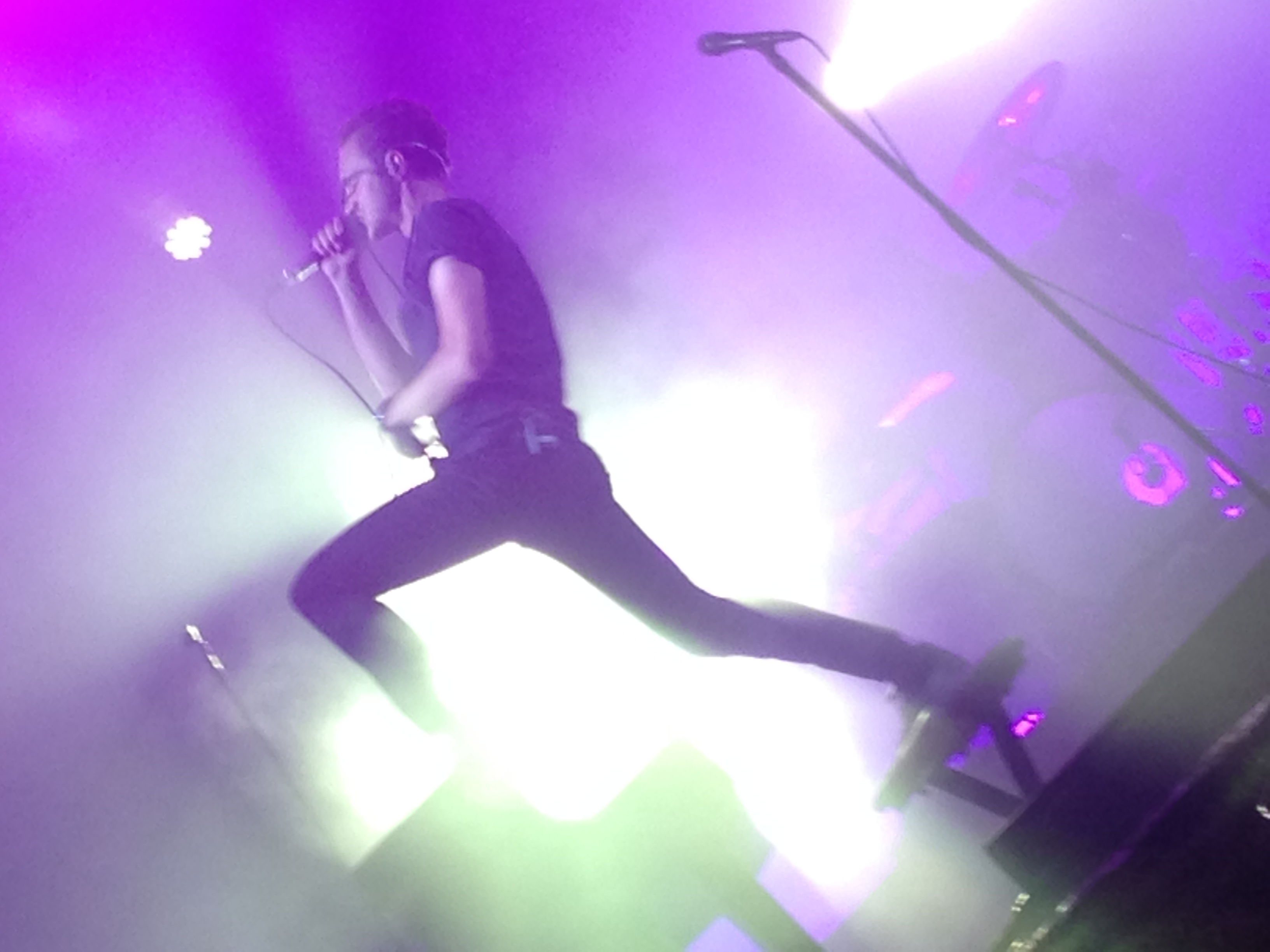 Tom Smith performing 2014